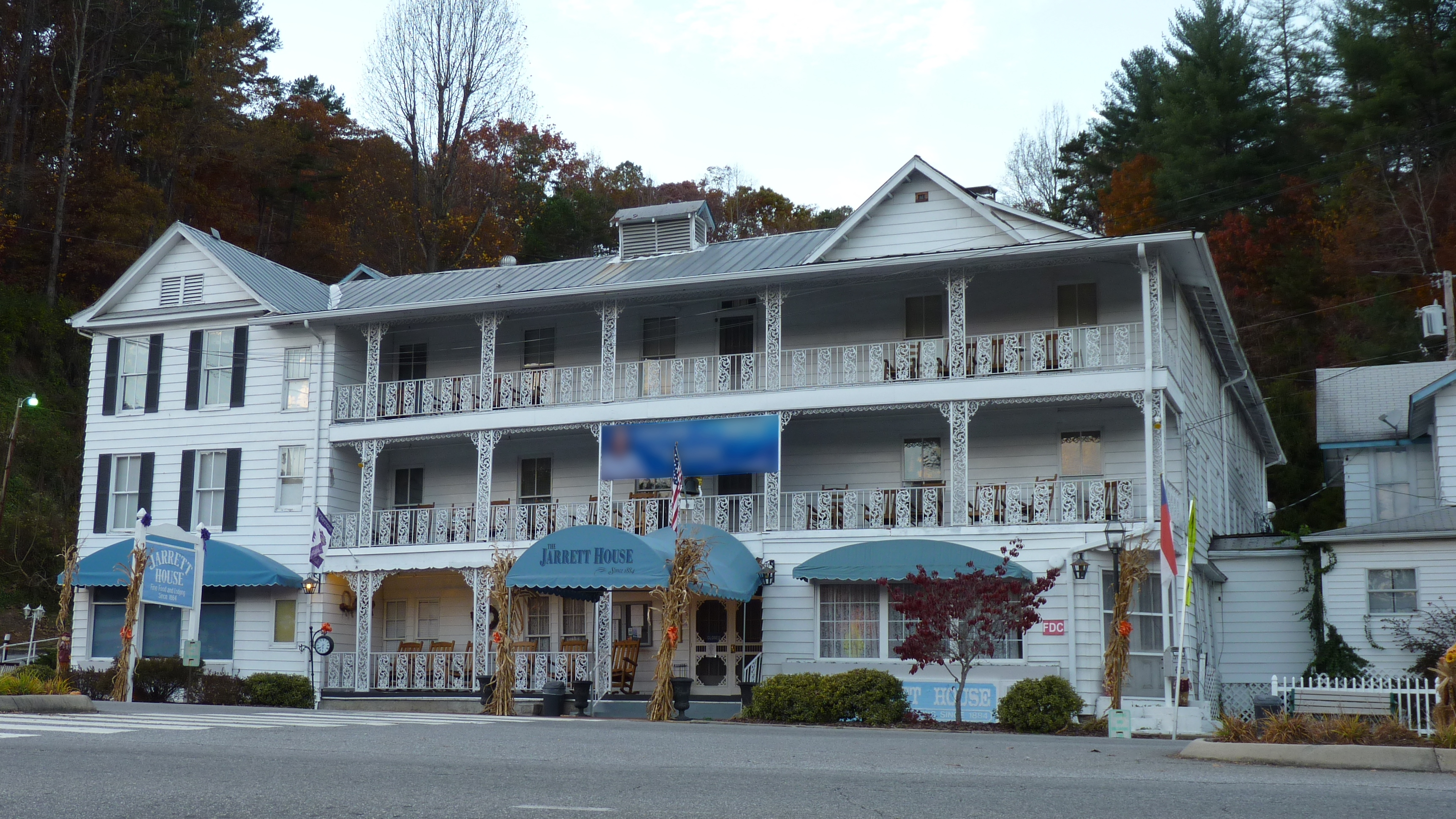 Jarrett House aka Mount Beulah Hotel, built by the founder of Dillsboro, William Allen Dills.